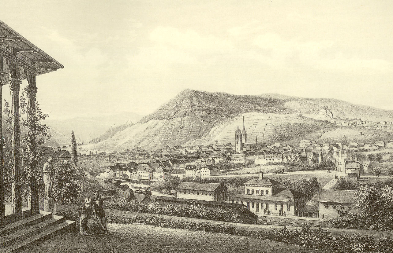 historical sight of the German town of Neustadt an der Weinstraße by Ludwig Rohbock and Johann Poppel